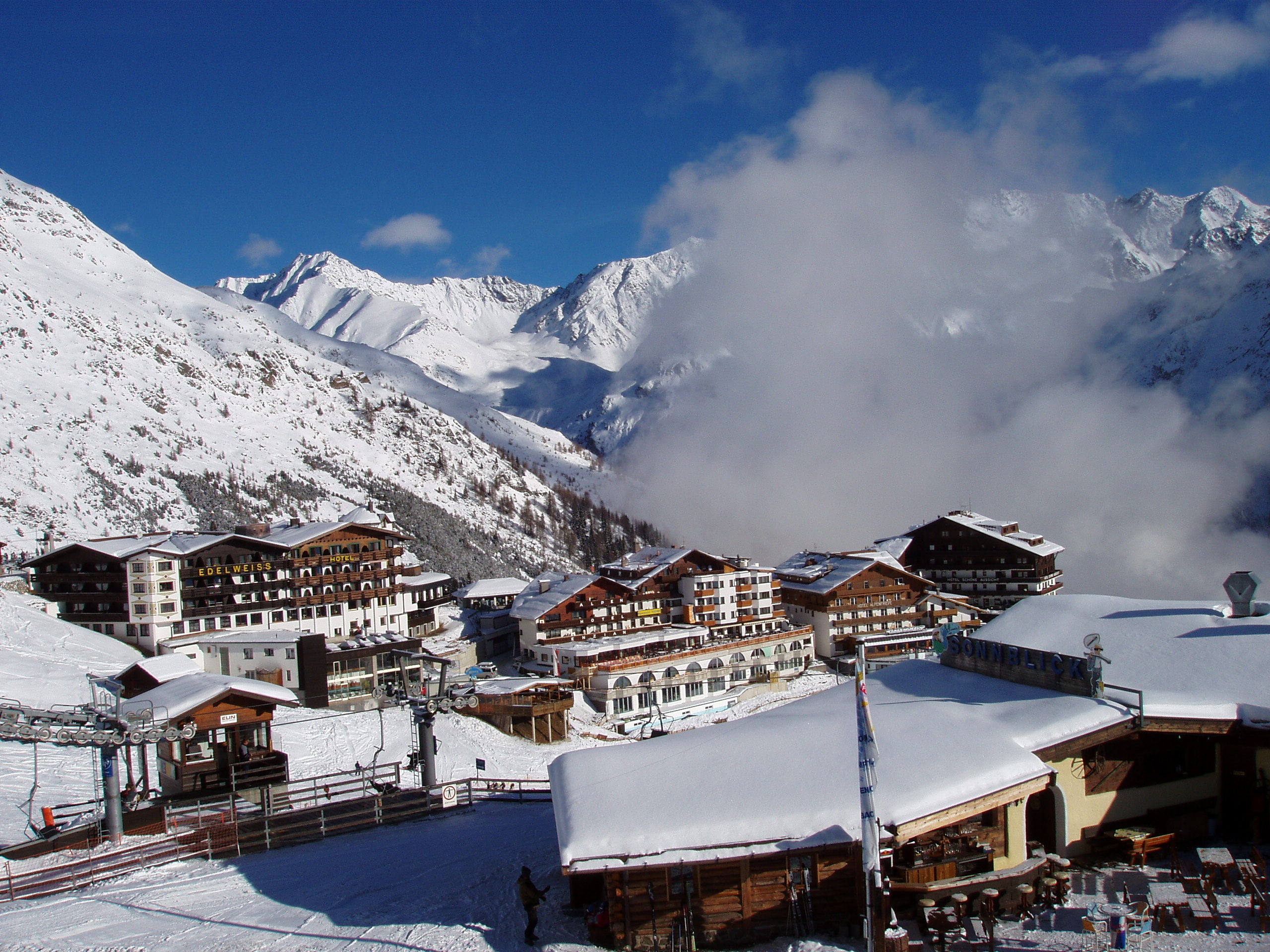 view of Hochsölden, Oetz Valley, Tyrol, Austria